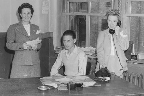 Printing department employees, United Grain Growers (Western Division), Calgary, Alberta.